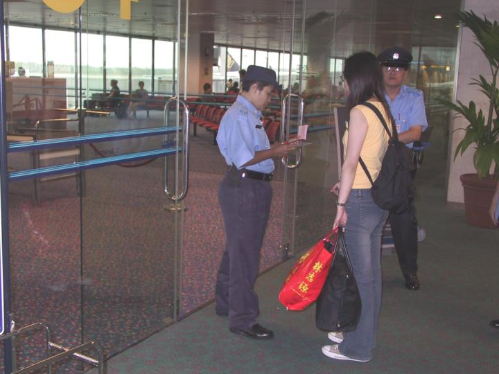 Image of staff from SATS Airport Police performing Gate Duties.